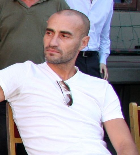 Paolo Montero in Argentina to participate in a charity game for the 2010 earthquake in Chile.